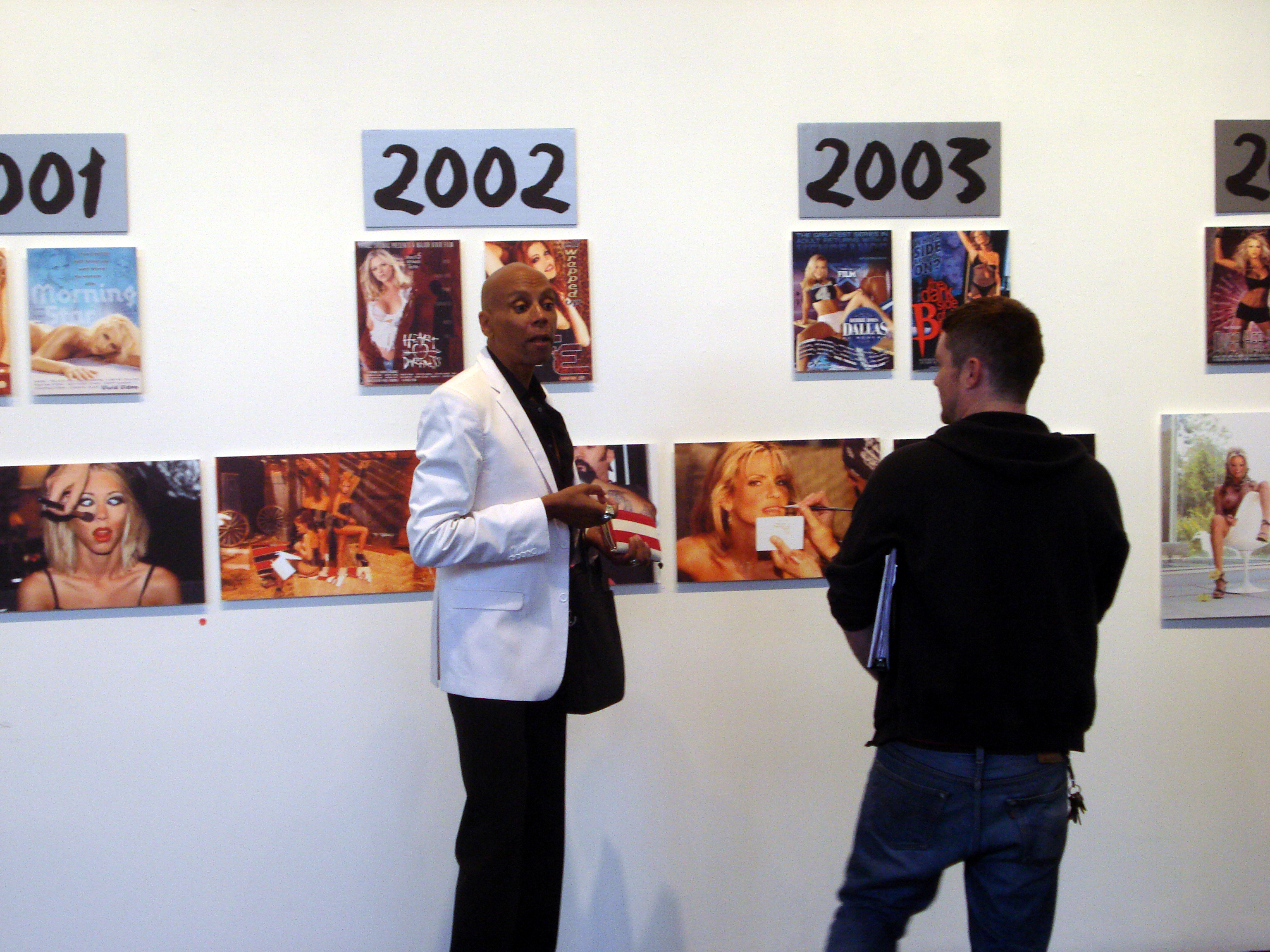 RuPaul (left) seen out of drag